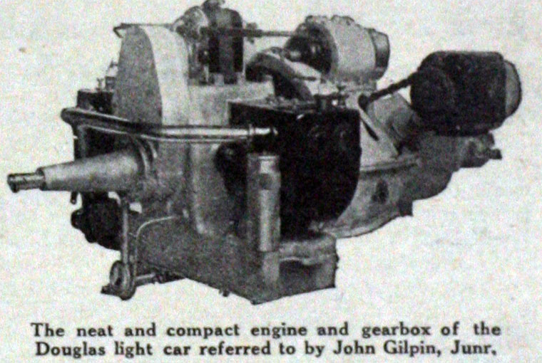 1919 Douglas 10.5 h.p. boxer twin engine, b x s = 92 x 92 mm, water cooled thermo-syphon, ignition by Zenith high-Tension magneto